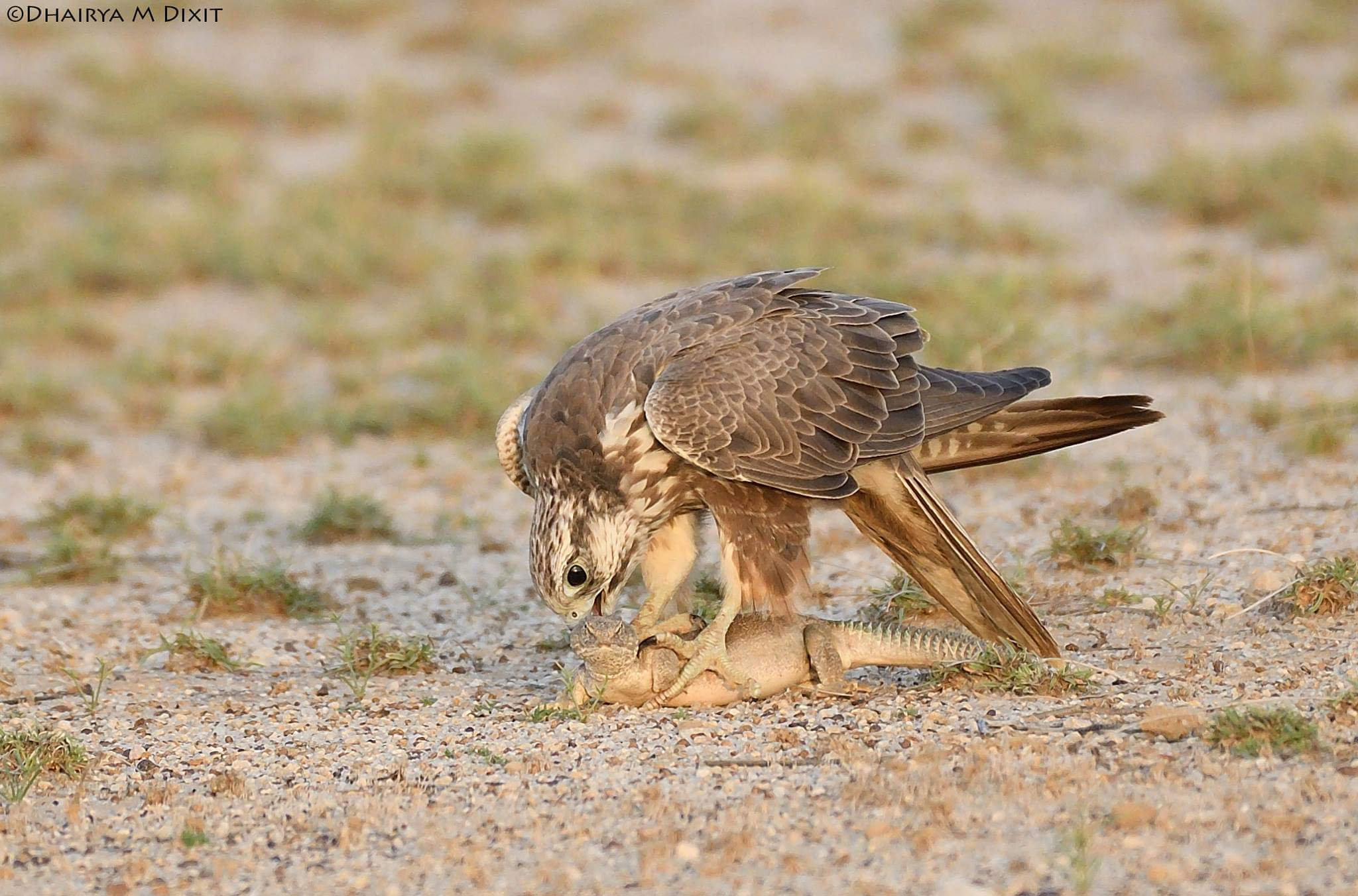 A juvenile Laggar Falcon is feeding on a just caught Spiny-tailed Lizard in Desert National Park, Rajasthan.